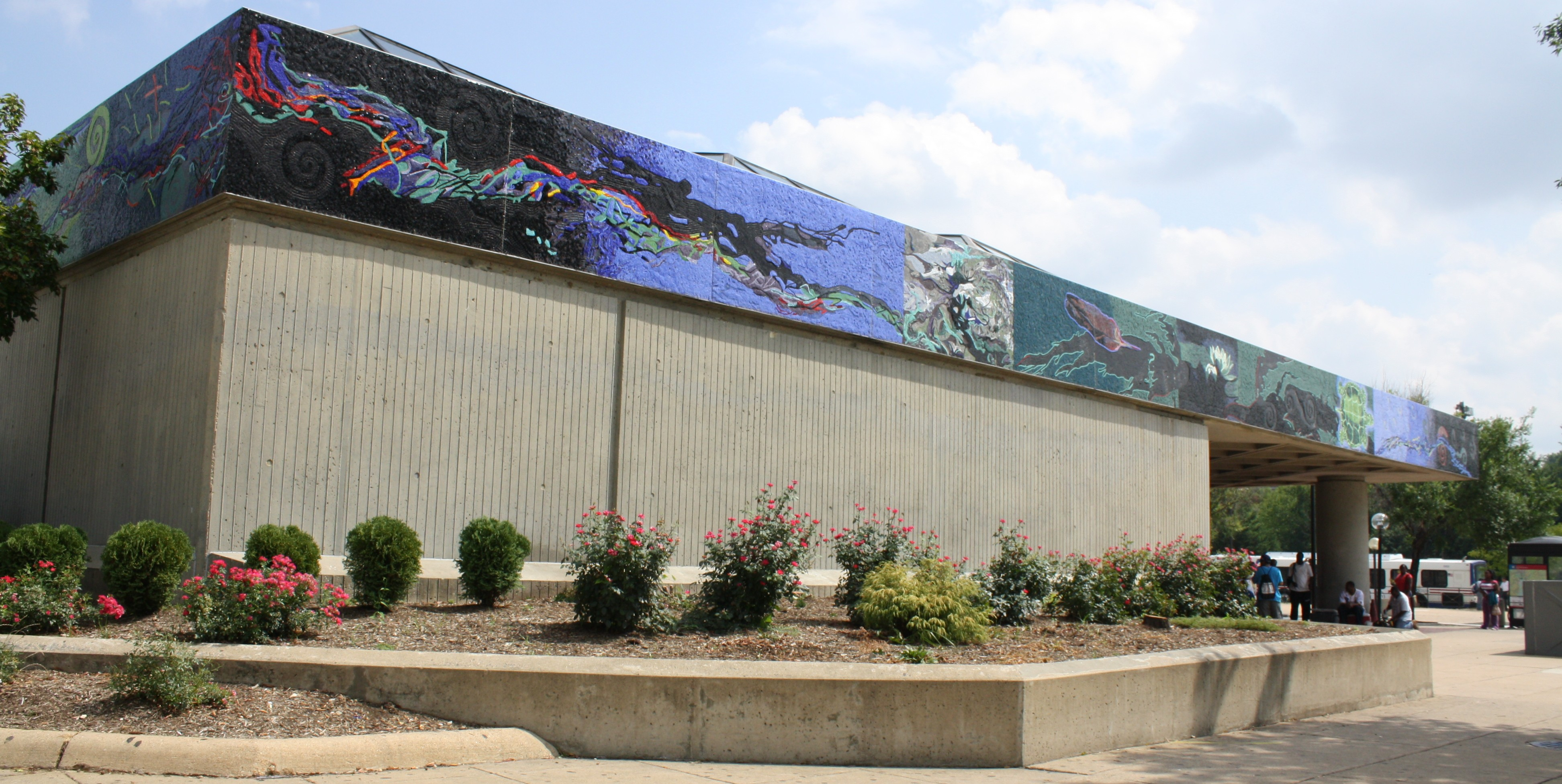 WMATA Anacostia Station at 1101 Howard Road, SE, Washington DC on Thursday afternoon, 4 August 2011 by Elvert Barnes Photography River Spirits of the Anacostia, 2004 Martha Jackson-Jarvis Glass mosaic tile frieze Visit Martha Jackson-Jarvis Studio at Return Trip from PR Harris Center EAST OF THE RIVER / ANACOSTIA, SE, Washington DC Project